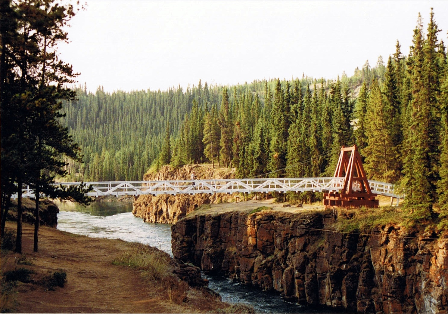 Miles Canyon, Yukon River, Whitehorse scanned image